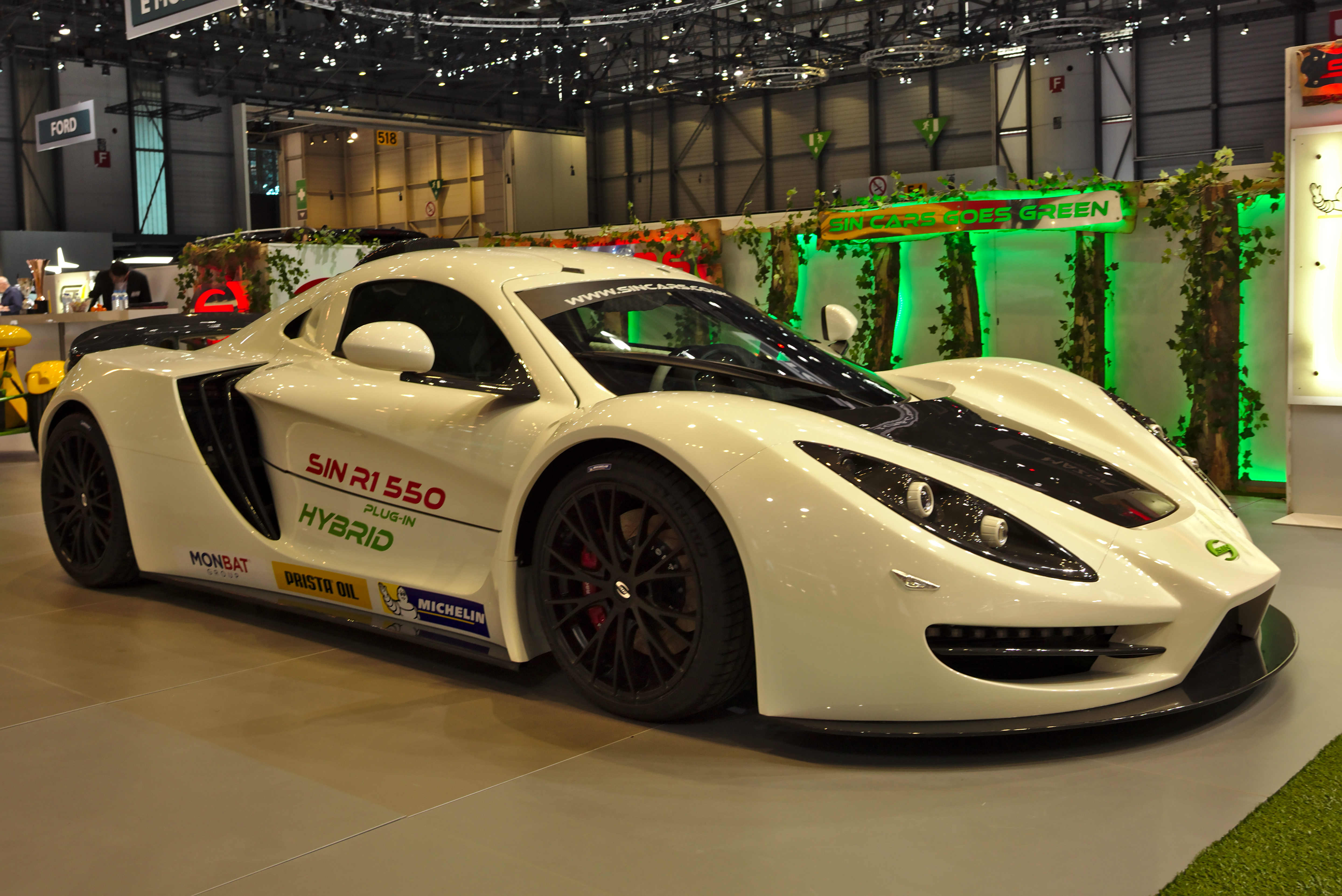 Sin R1 550 Hybrid at Geneva Motorshow 2018